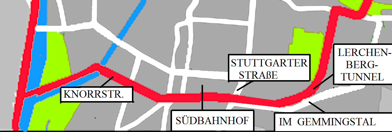 Geplante Südtangente Knorrstraße - Areal des ehemaligen Südbahnhofs - Lerchenbergtunnel